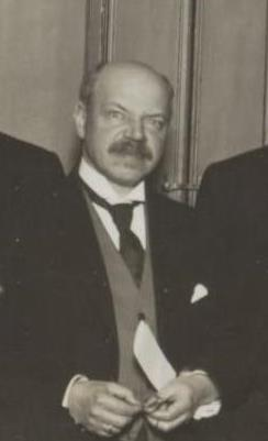 Frans Maurits Jaeger during a meeting of the Natuurkundig Genootschap, Groningen 1926